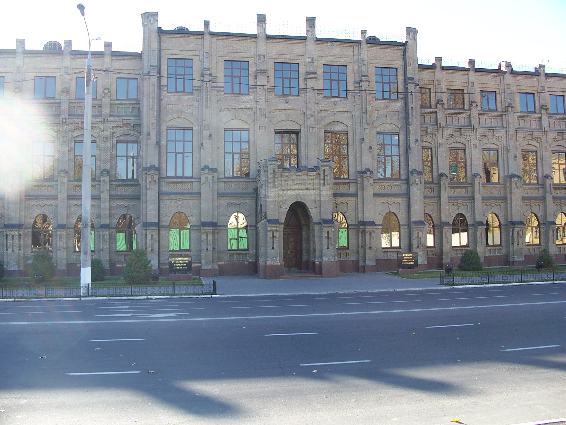 Westminster International University in Tashkent. Oʻzbekcha/ўзбекча: Toshkent Xalqaro Westminster Universiteti.